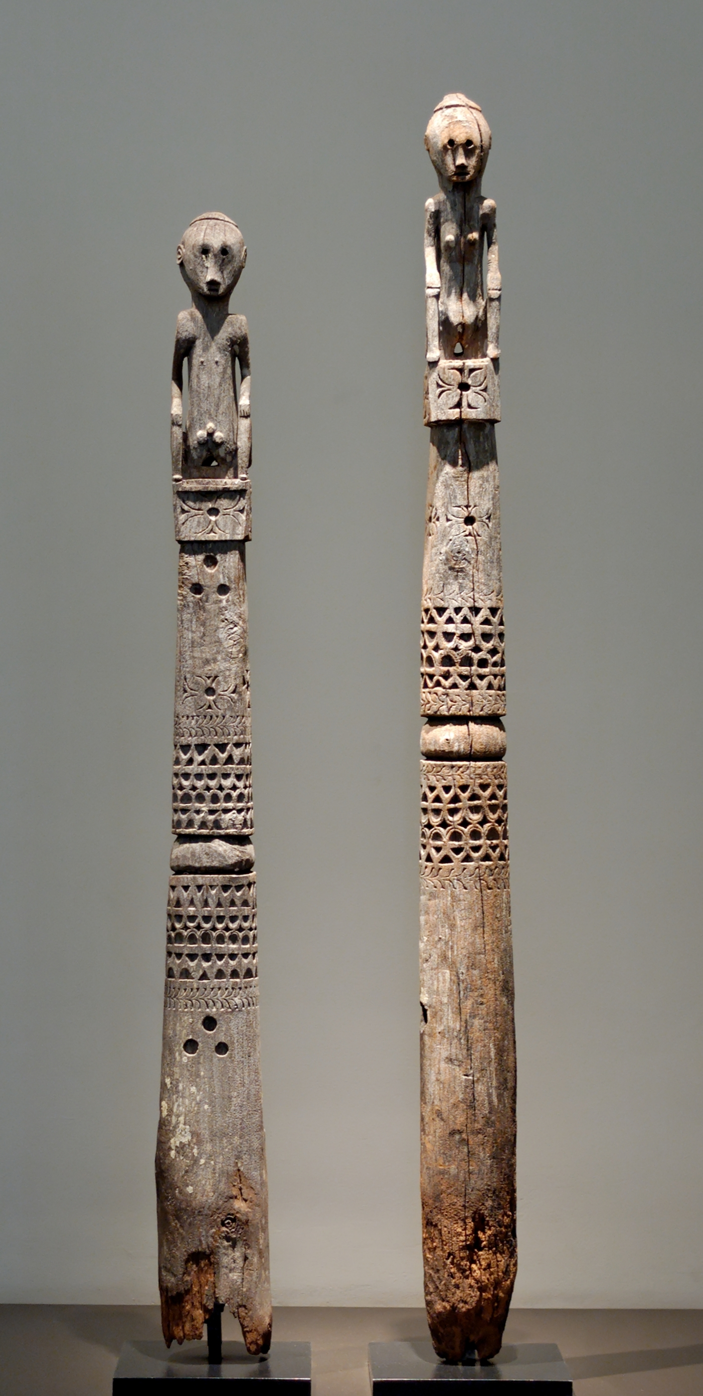 Ana deo figures of the Nage people, representing tutelar spirits of the clan house, Flores Island (Eastern Indonesia).